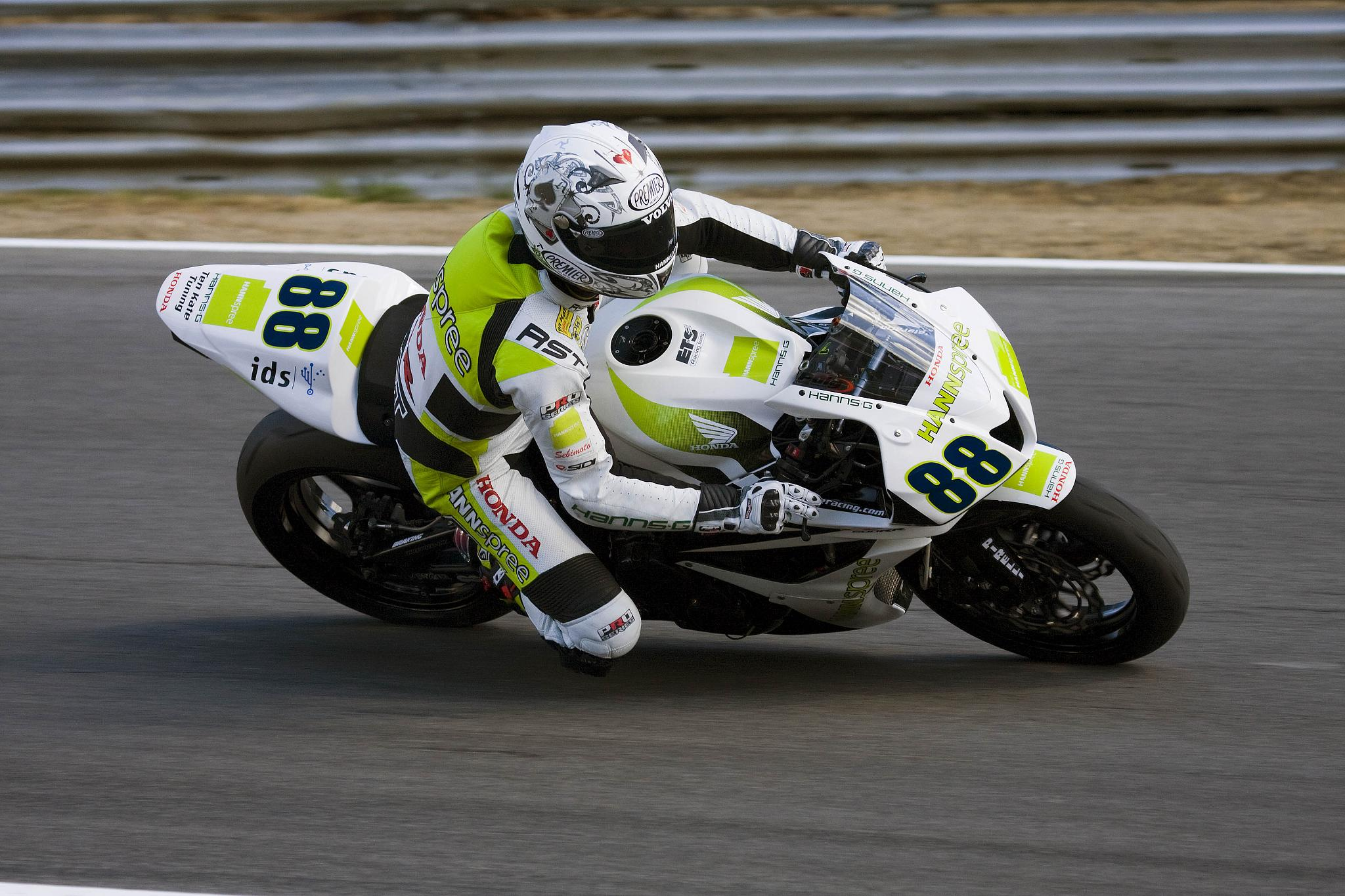 World Superbikes meeting at Brands Hatch August 2008. Supersport Practice